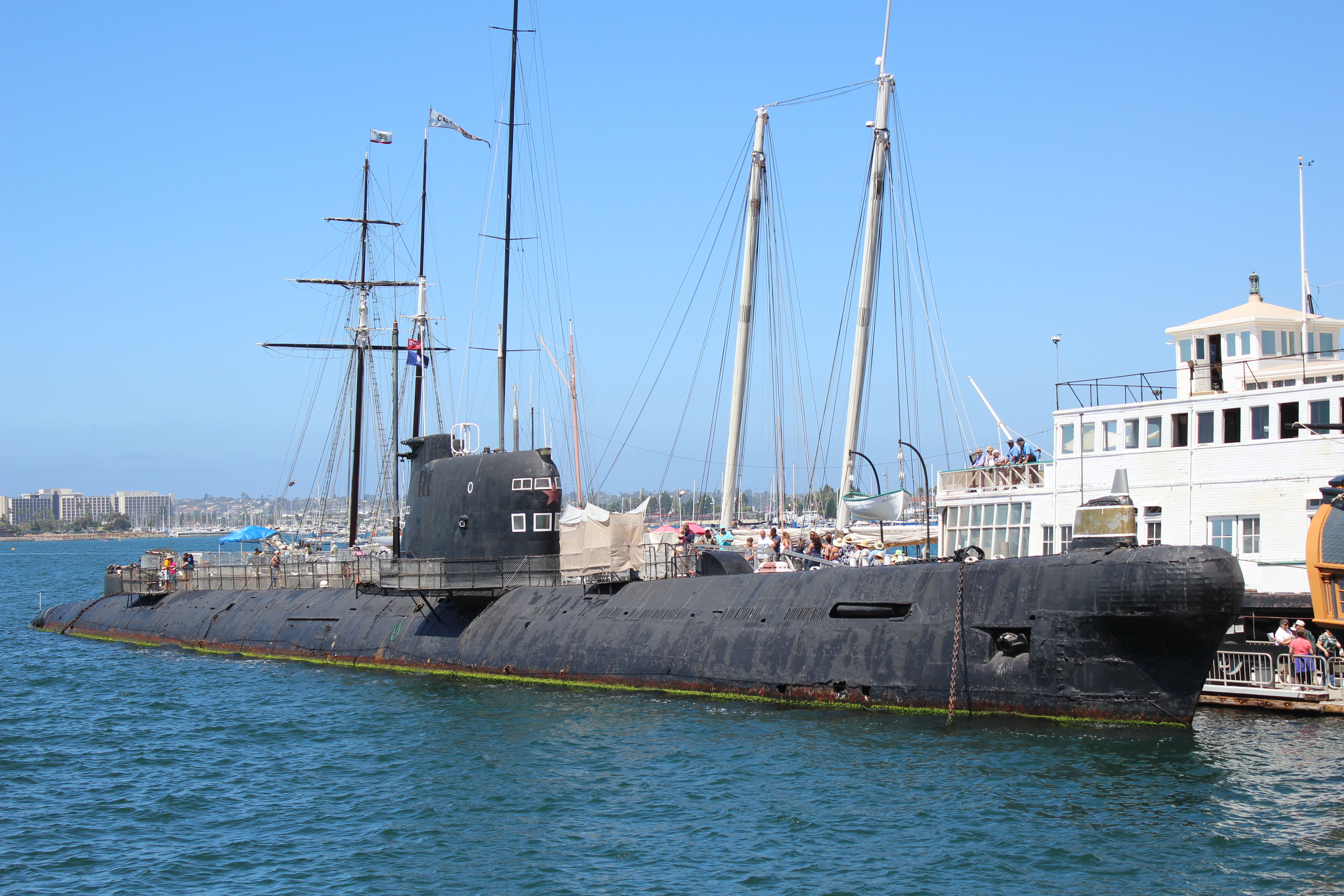 View of the B-39 submarine from the Star of India at the Maritime Museum of San Diego, California.